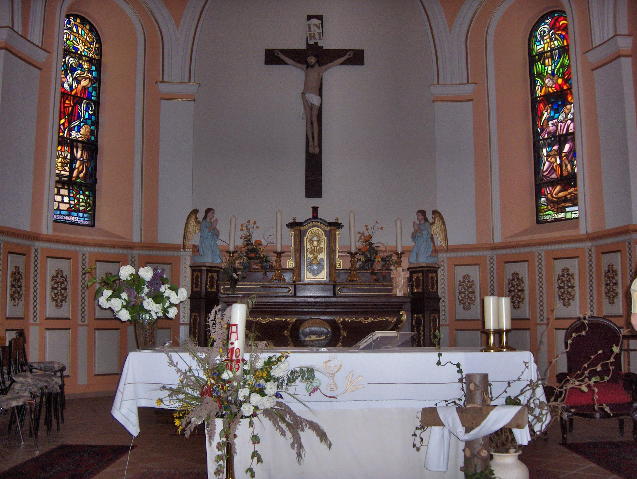 Main altar in the church of Baldersheim, France